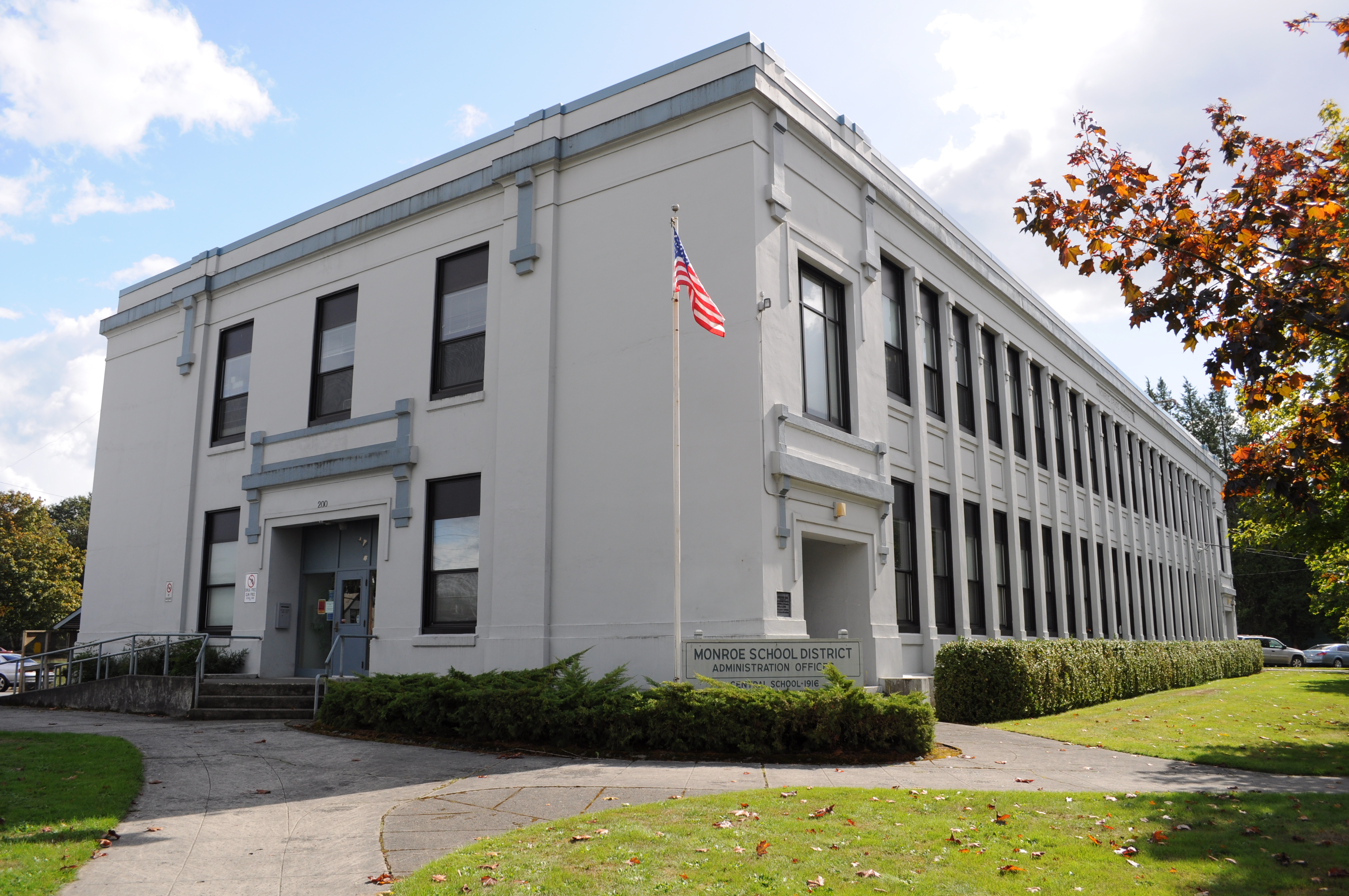 Old Monroe Elementary School, S. Ferry St., Monroe, Washington, now school administration building.